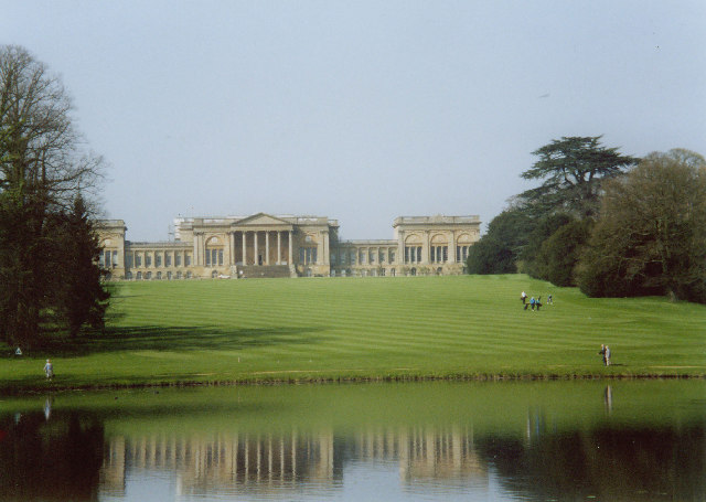 Stowe House, South Aspect